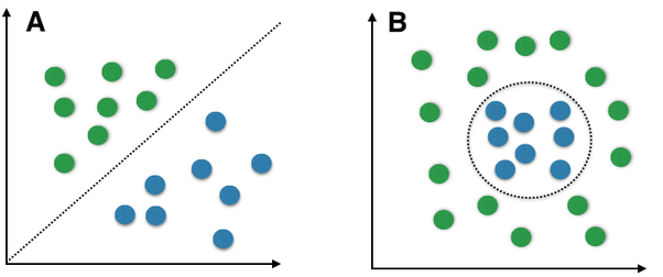 Non-linear